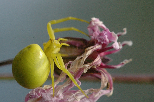 Misumena vatia from Commanster, Belgian High Ardennes .